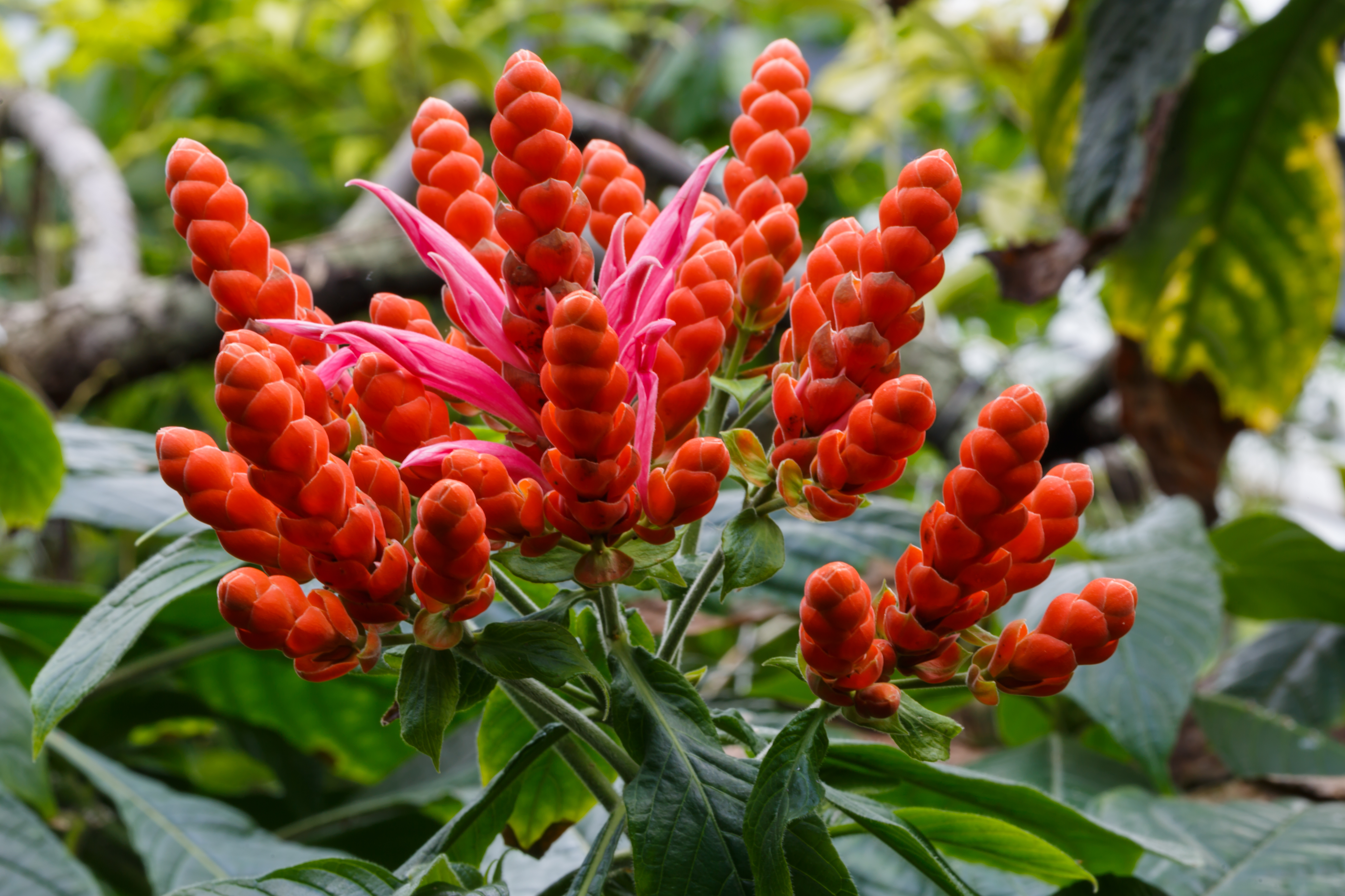 Cologne, Germany: Aphelandra sinclaireana (deutsch: Rotes Glanzkölbchen) in the "Flora Köln" gardens